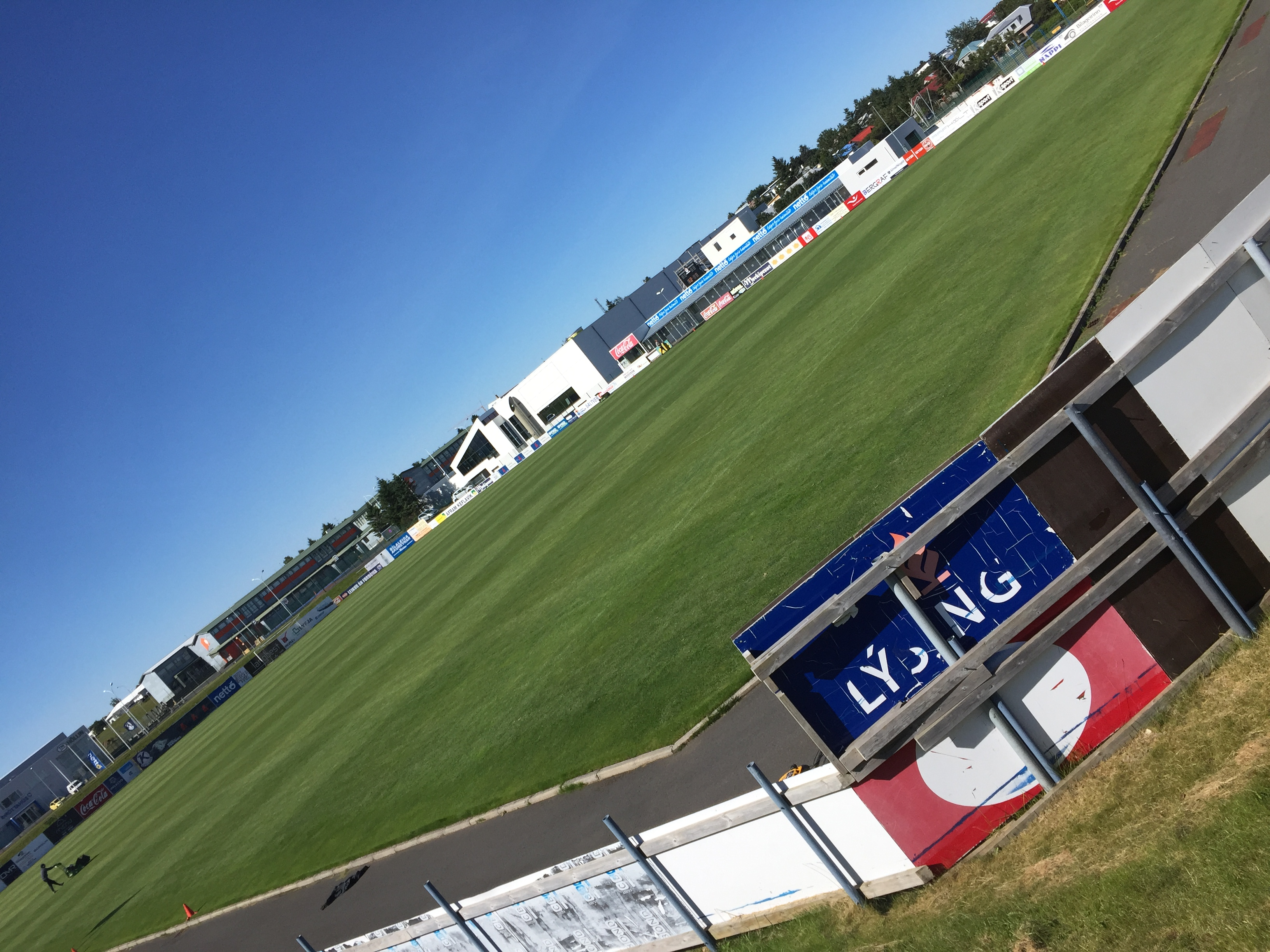 Keflavíkurvöllur is a multi-use stadium in Keflavík, Iceland.[1][2] It is currently used mostly for football matches. Keflavík Football Club plays there. The stadium holds 4,000. The stadium is currently called Nettó-völlur after one of the club's sponsor, Nettó. In October 2009 the grass had to be changed because of its poor condition; if it rained, the grass would change into mud in only a short time.